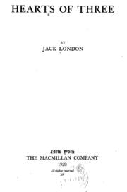 title page of Hearts of Three by Jack London